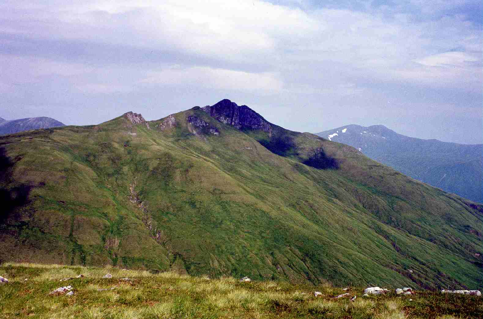 Personal picture taken by Mick Knapton